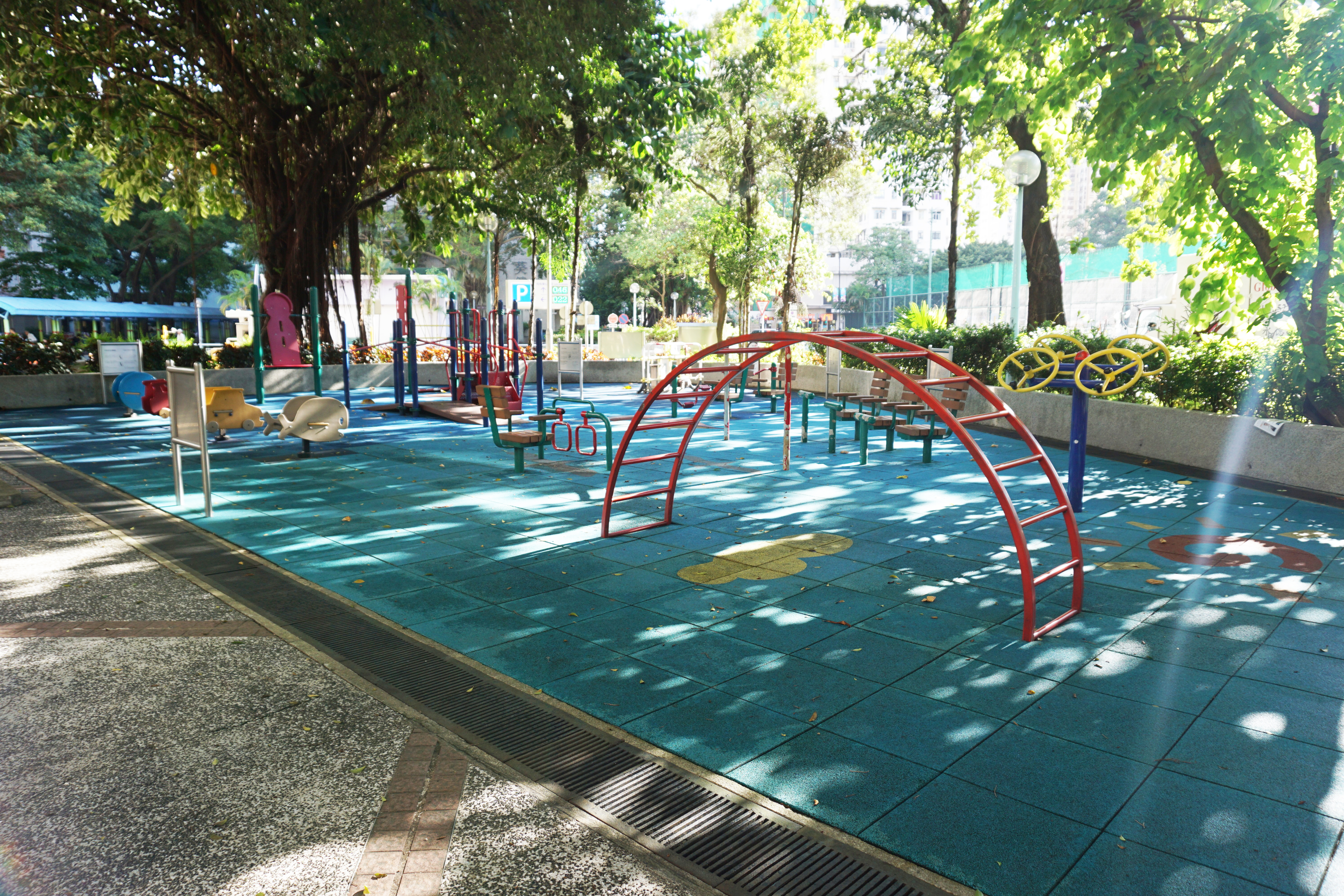 Kwai Fong Estate in Kwai Chung, Hong Kong.